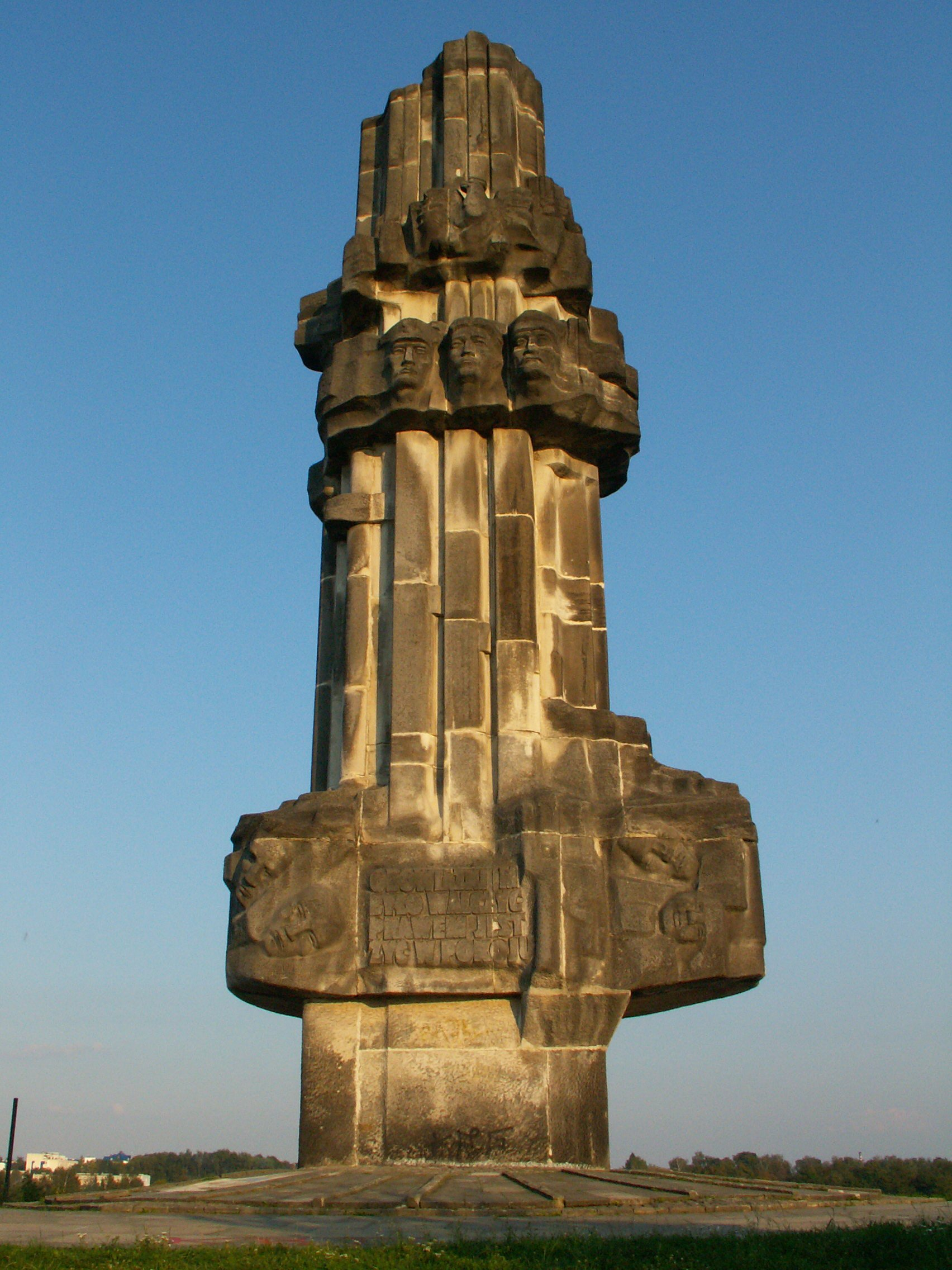 Freedom Fighters' monument at Kadzielnia in Kielce (Poland)